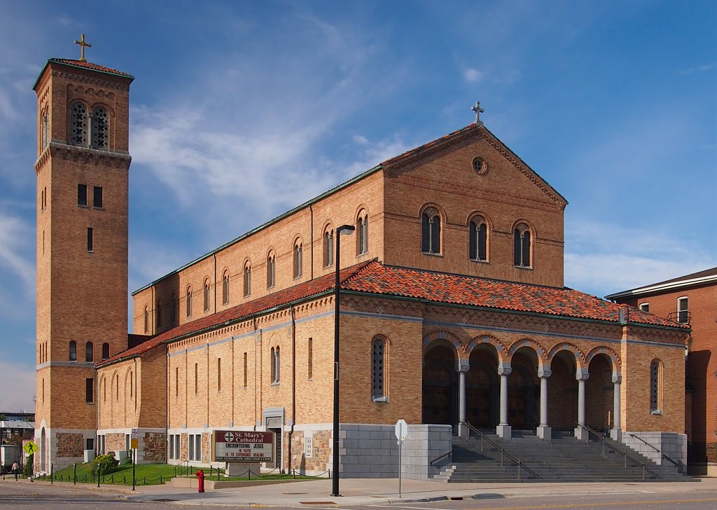 Cathedral of St Mary, 25 8th Avenue South, St Cloud, Minnesota, USA. Viewed from the east.